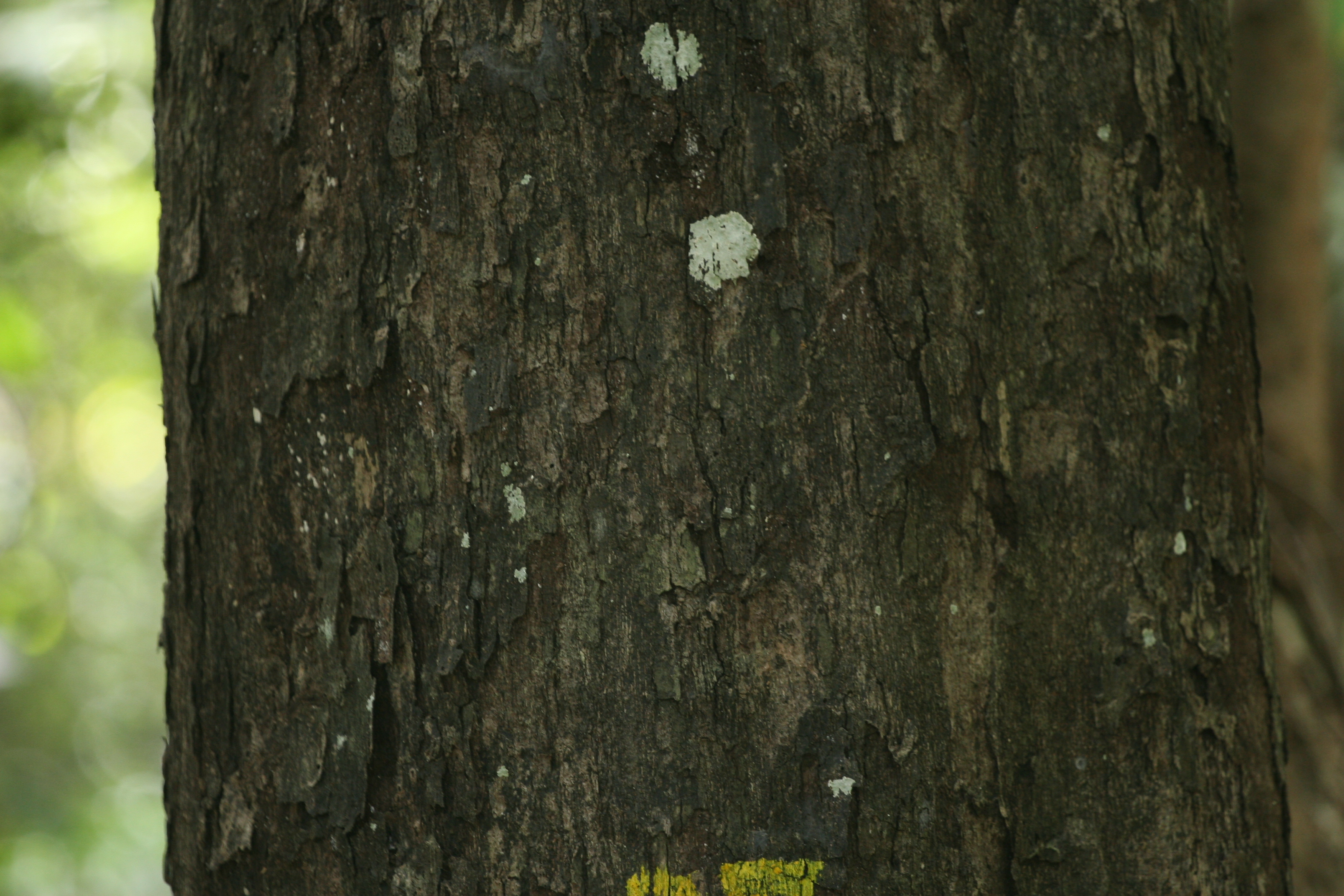 Diospyros ebenum stem